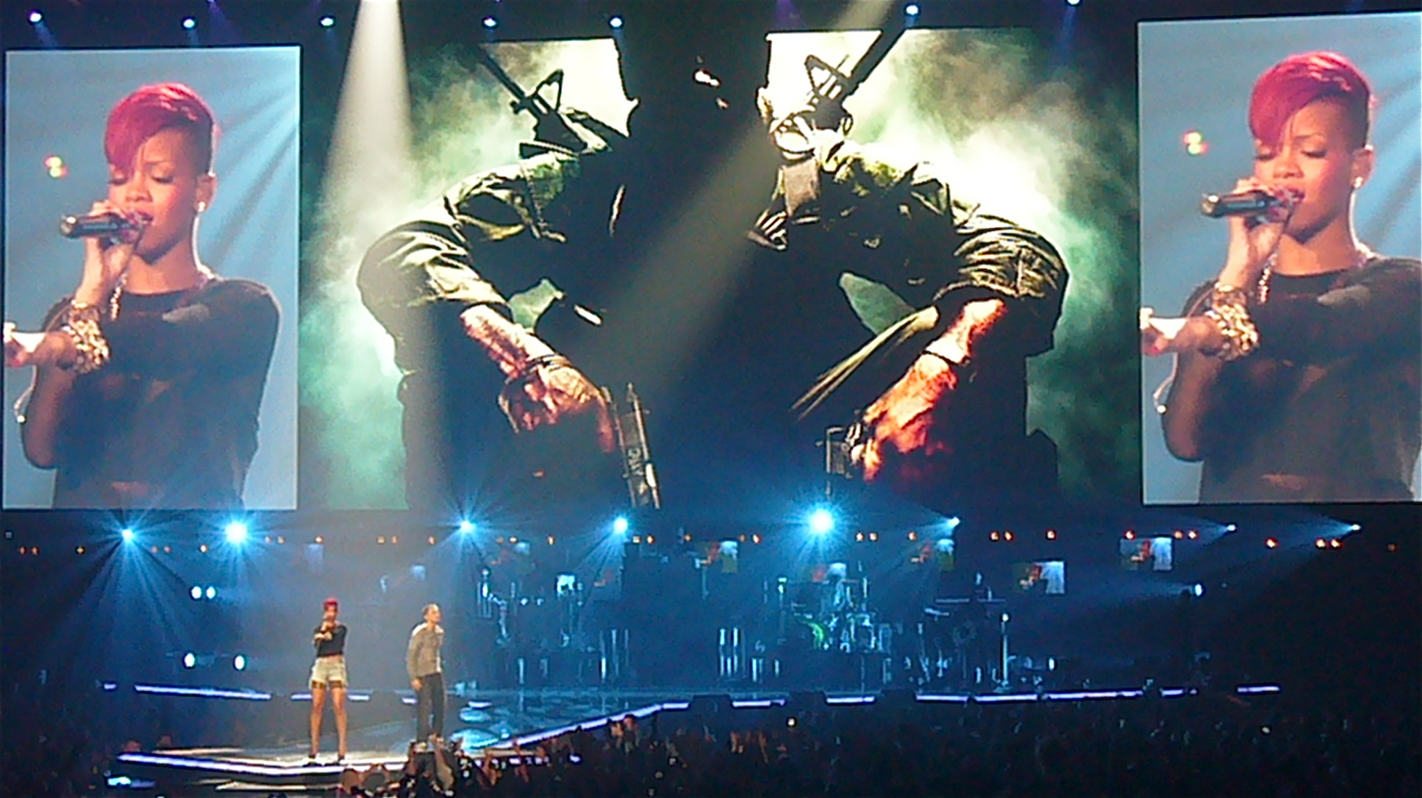 Eminem and Rihanna live in concert singing "Love the Way You Lie"